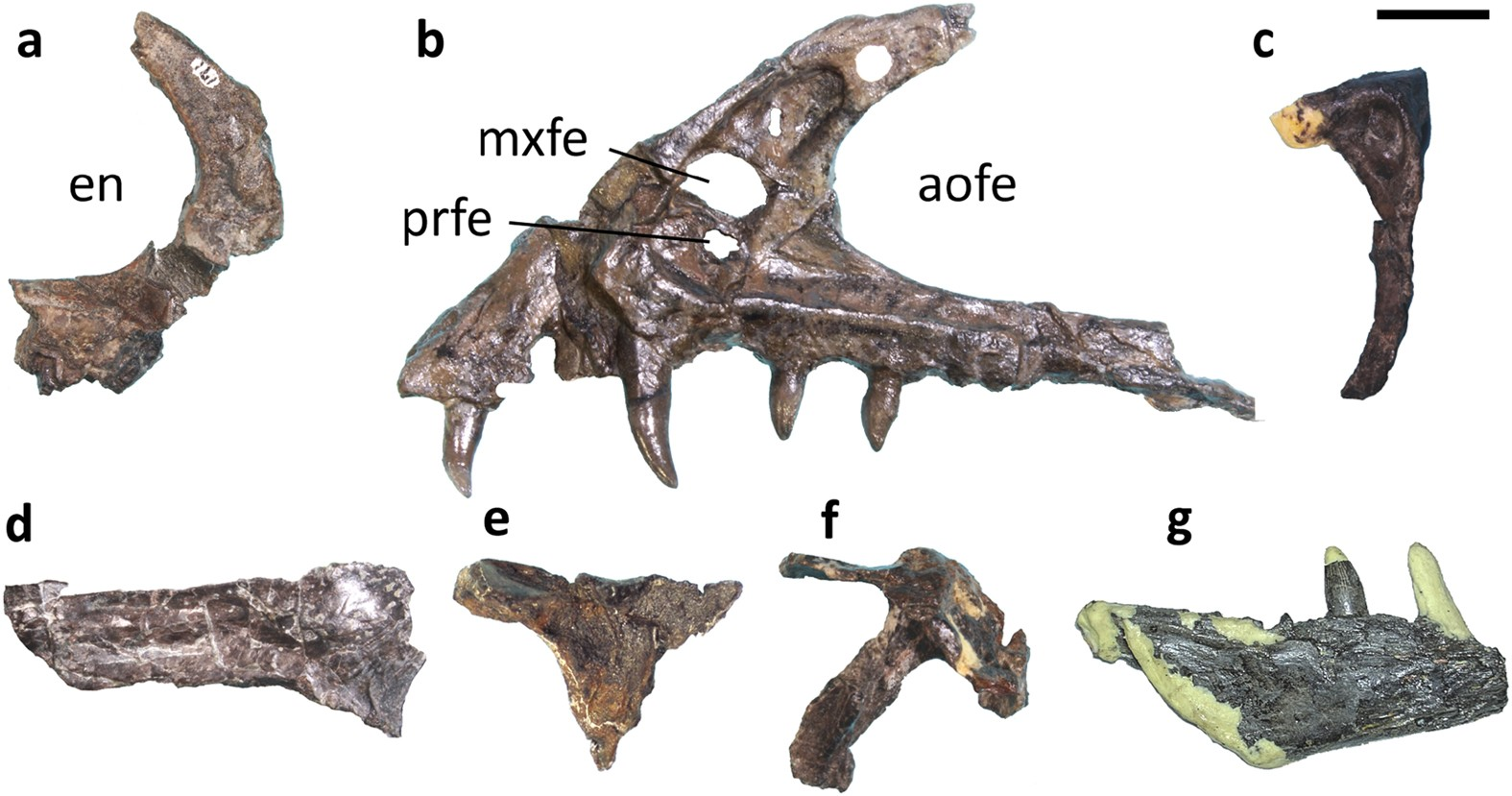 Cranial skeletal morphology of FPDM-V8461. (a) Partial right premaxilla in lateral view. (b) Partial left maxilla in lateral view. (c) Partial left lacrimal in lateral view. (d) Right frontal in dorsal view. (e) Right postorbital in lateral view. (f) Left squamosal in lateral view. (g) Partial right dentary in lateral view. Scale bar = 10 mm. Abbreviations: aofe, antorbital fenestra; en, external naris; mxfe; maxillary fenestra, prfe; premaxillary fenestra.